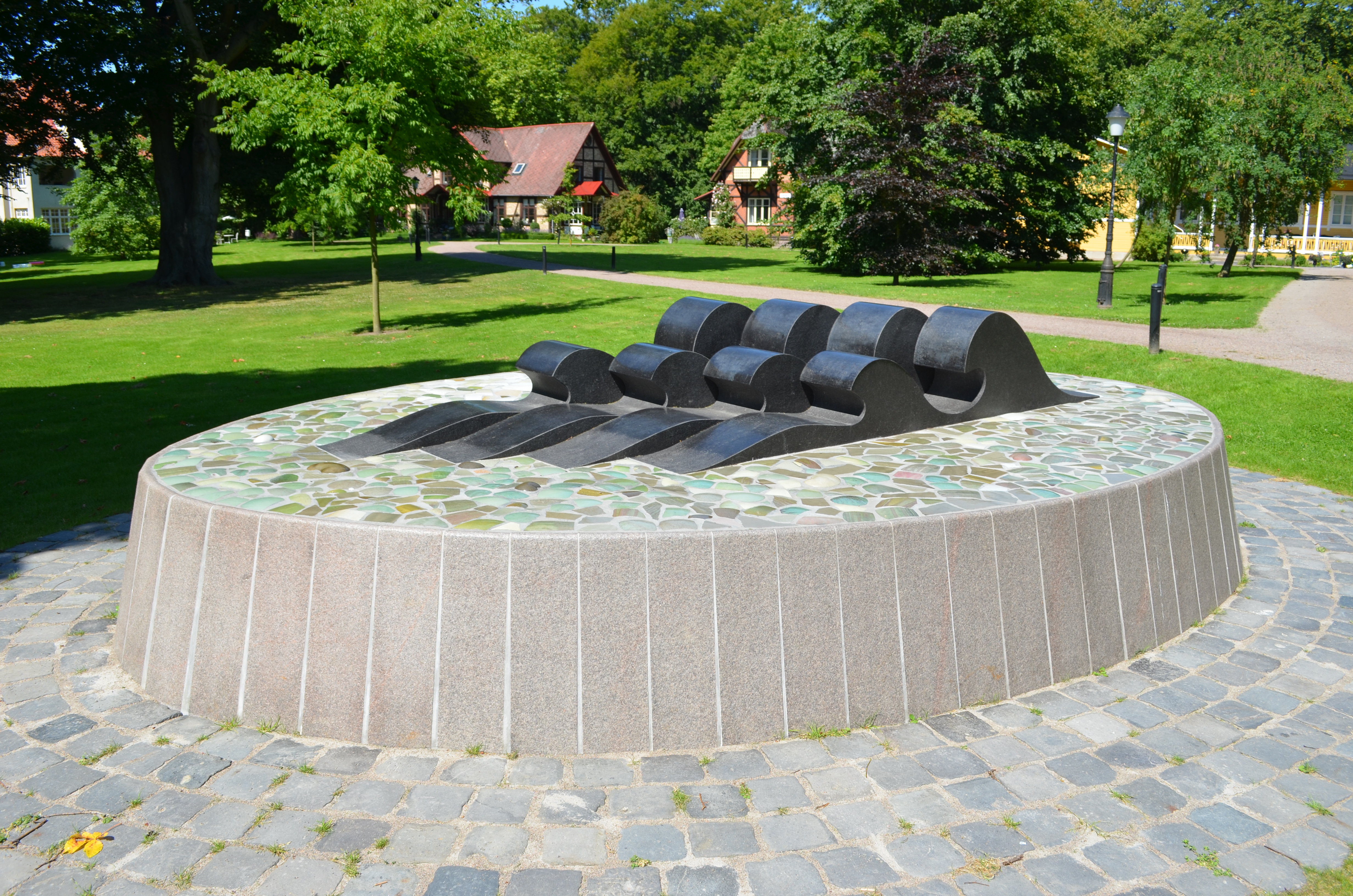 Sculpture "Bakom vågorna" in Ramlösa hälsobrunn.